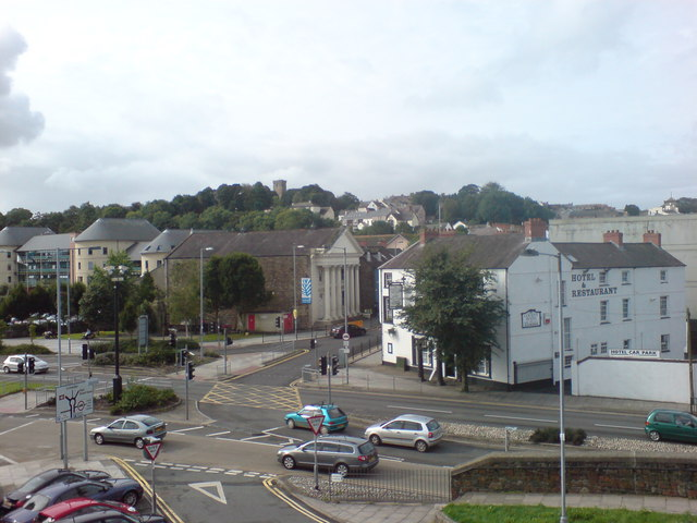 Salutation Square Visible left to right is the County Hall, Masonic Hall (now Matisse nightclub) and the County Hotel.